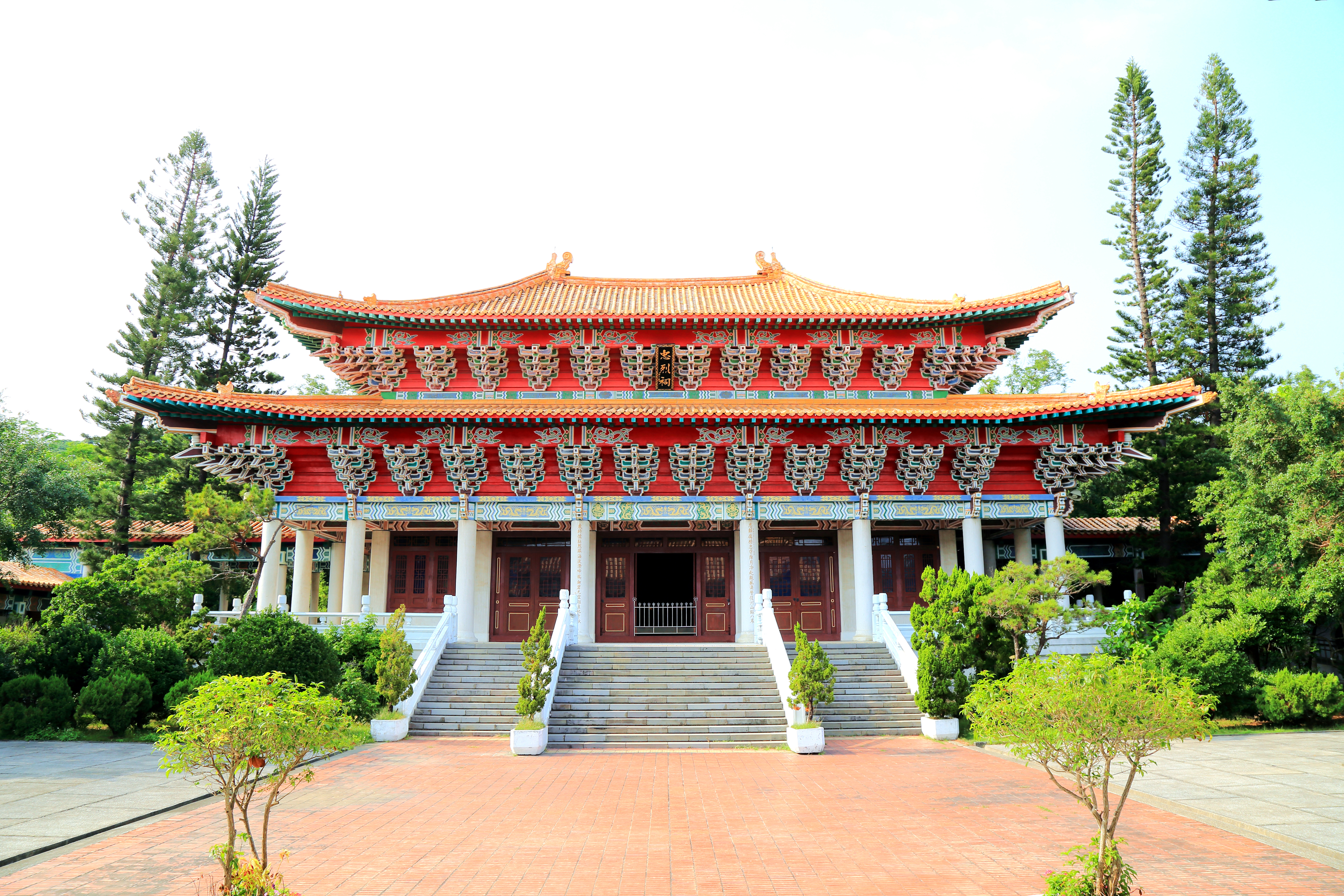 Main hall of Kaohsiung Martyrs's Shrine